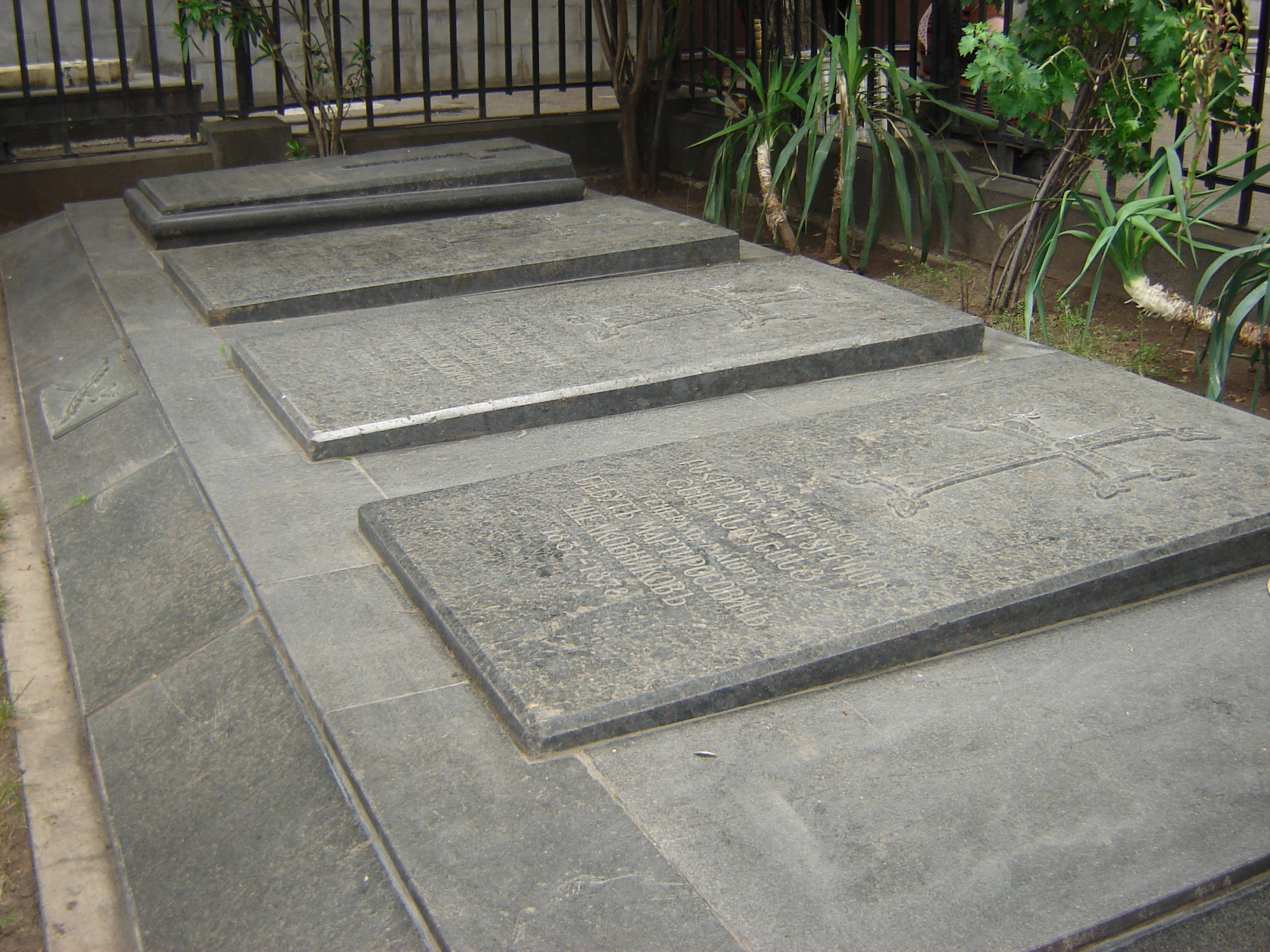 St Kevork Armenian Apostolic Church, Tbilisi, Georgia(country) - Burials of four generals : Mikhail Tarielovich Loris-Melikov, Arshak Ter-Gukasov, Hovaness Lazarev and Beybut Shelkovnikov